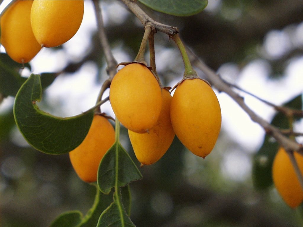 Mimusops zeyheri Sond. fruit - own image